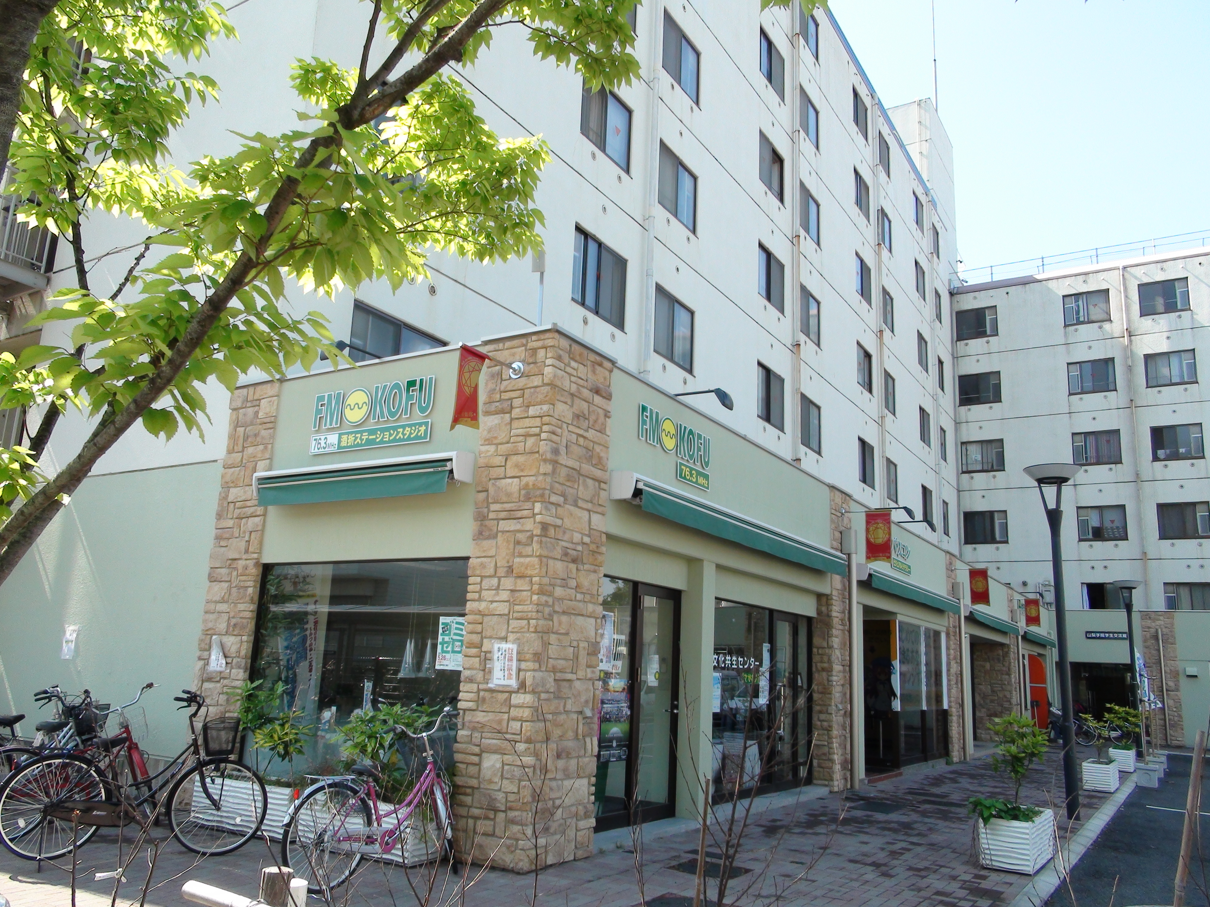 FM Kofu studio Sakaori Station